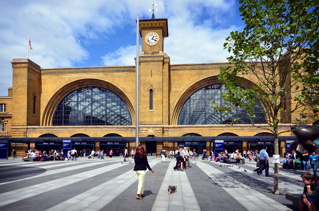 Architect: Lewis Cubitt, 1852. A major redevelopment of this railway station has fully revealed the original façade by creating an open plaza to the south. A new concourse is now to the west. The station is a Grade I listed structure. London Borough of Camden. (CC BY-SA - credit: Photo by George Rex.)